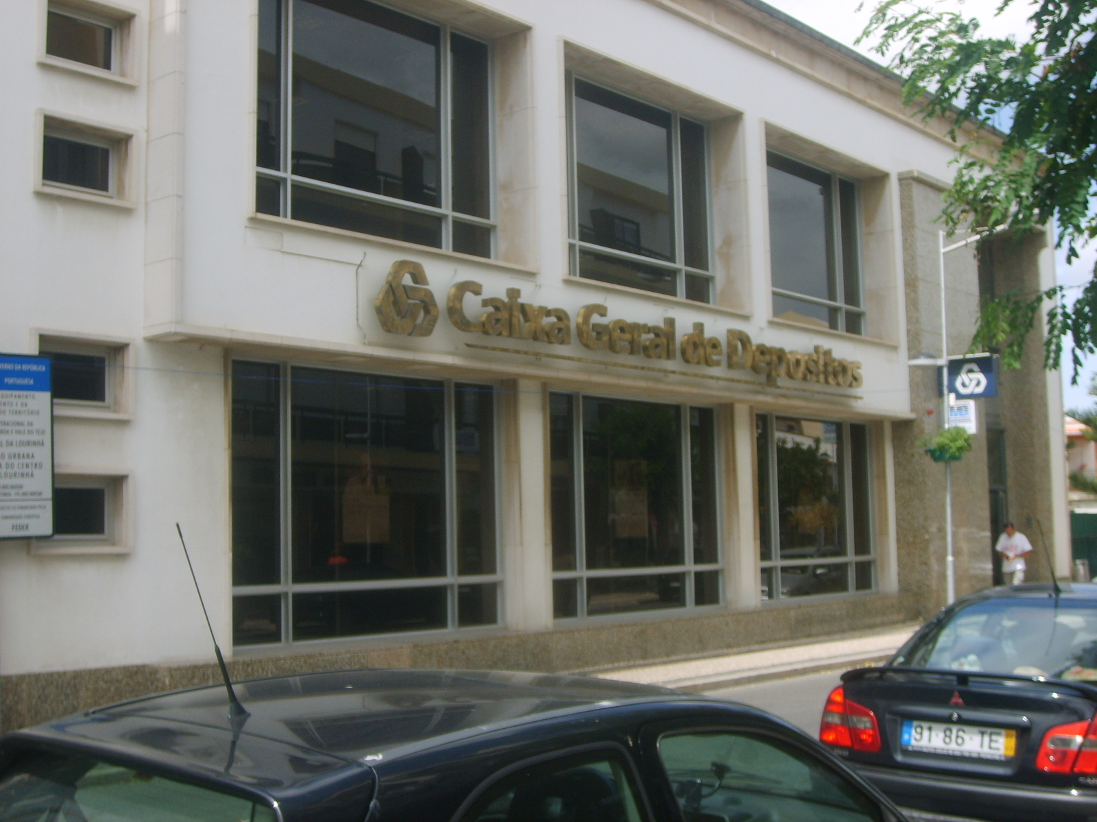 Bank Caixa Geral de Depósitos in Lourinhã